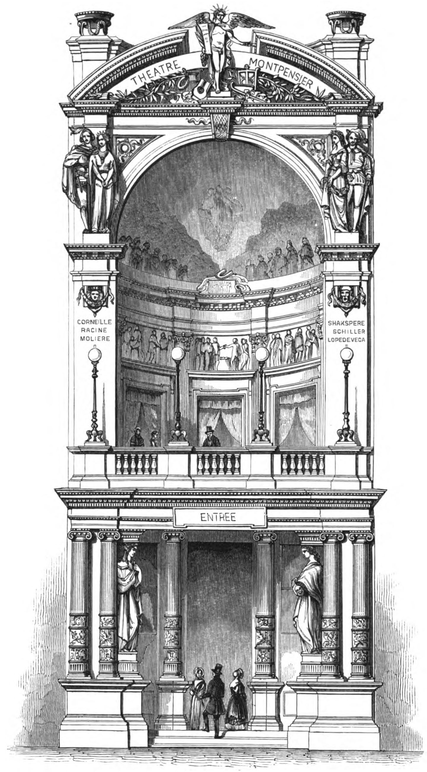 Design for the facade of the Théatre Historique (originally intended to have the name Théâtre Montpensier)